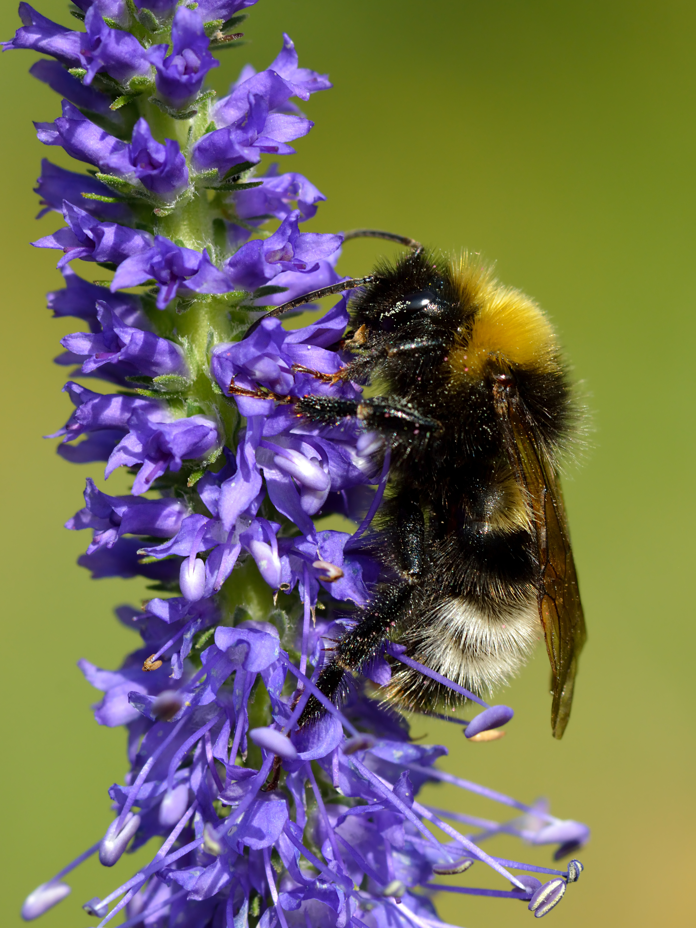 Male cuckoo bumblebee Bombus norvegicus on the spiked speedwell (Veronica spicata). Keila, Northwestern Estonia. This specimen could also be male forest cuckoo bumblebee (Bombus sylvestris), exact identification could be done only under microscope.